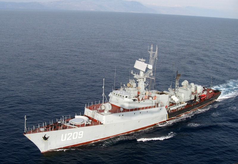 Ternopil (ship, 2002)